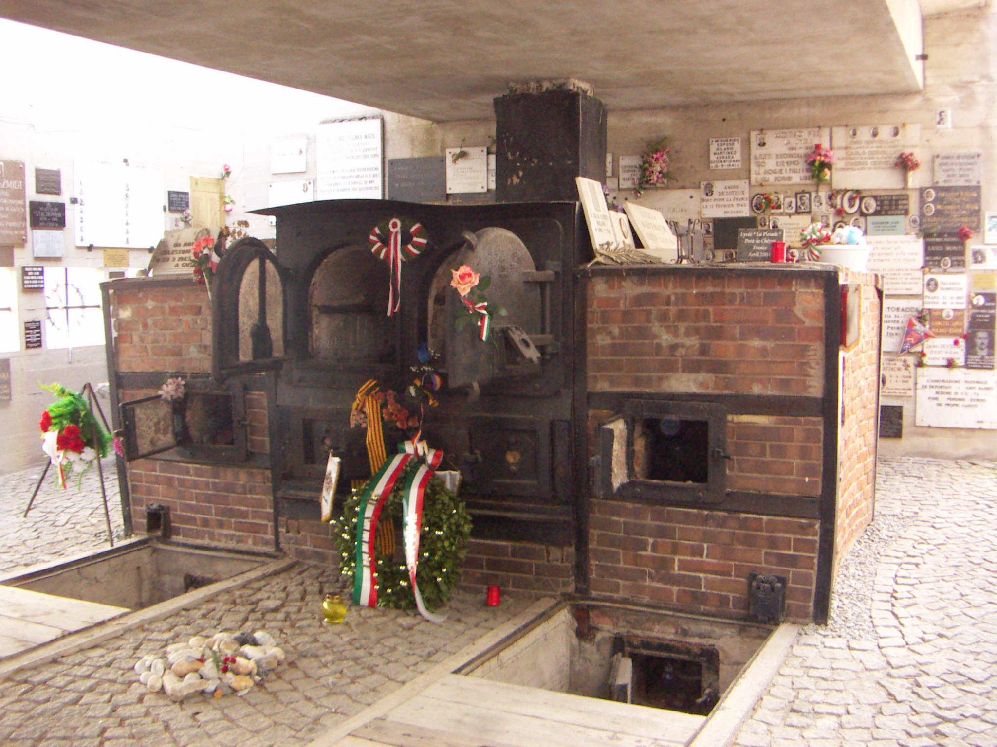 Former incinerators of KL Gusen I concentration camp in the core of Memorial Crematorium KZ Gusen